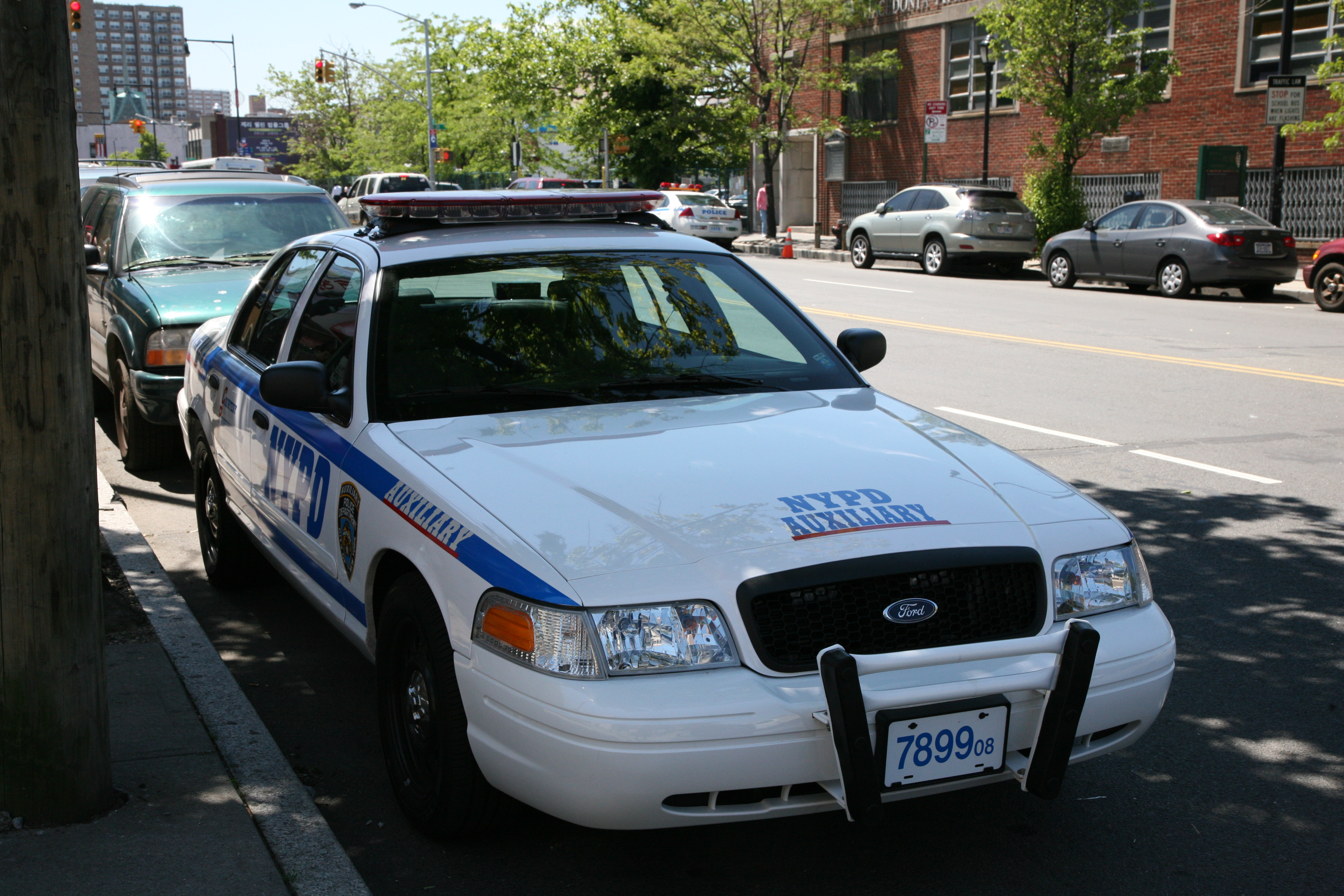 NYPD Auxiliary car, Flushing, New York City